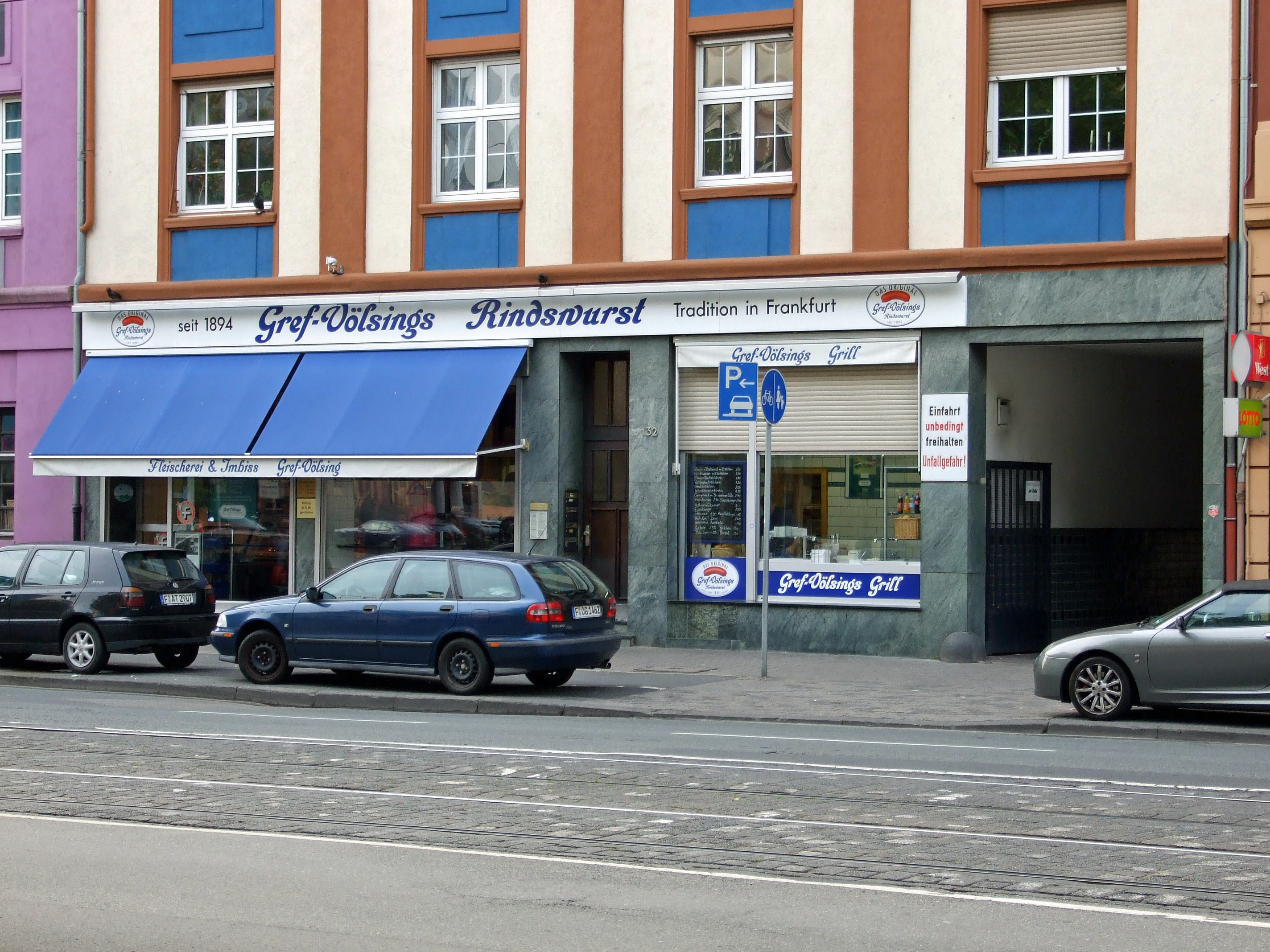 Gref-Voelsing (beef sausage butcher) in Frankfurt am Main